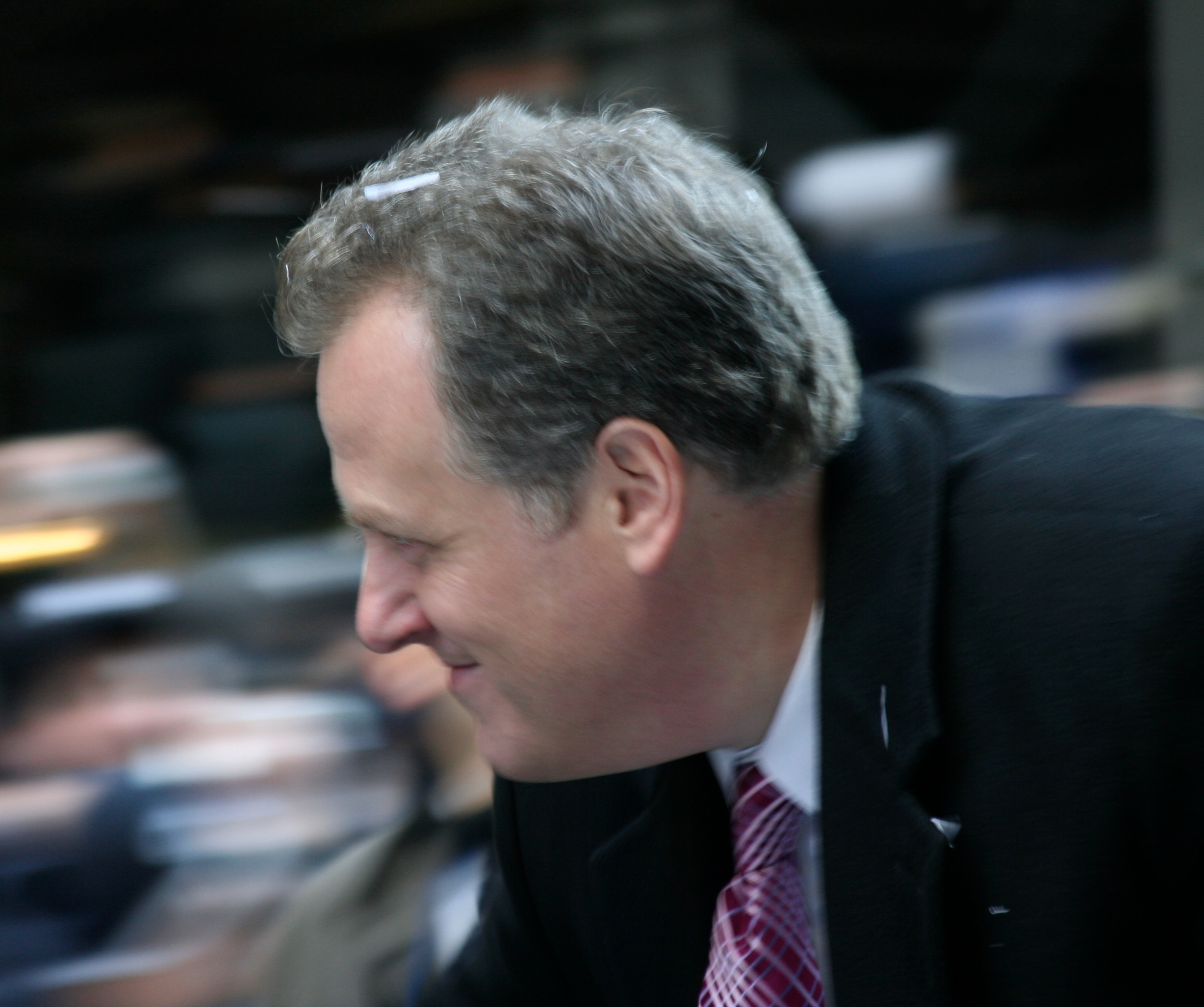 Yankees broadcaster Michael Kay at the 2009 Yankees World Series parade.